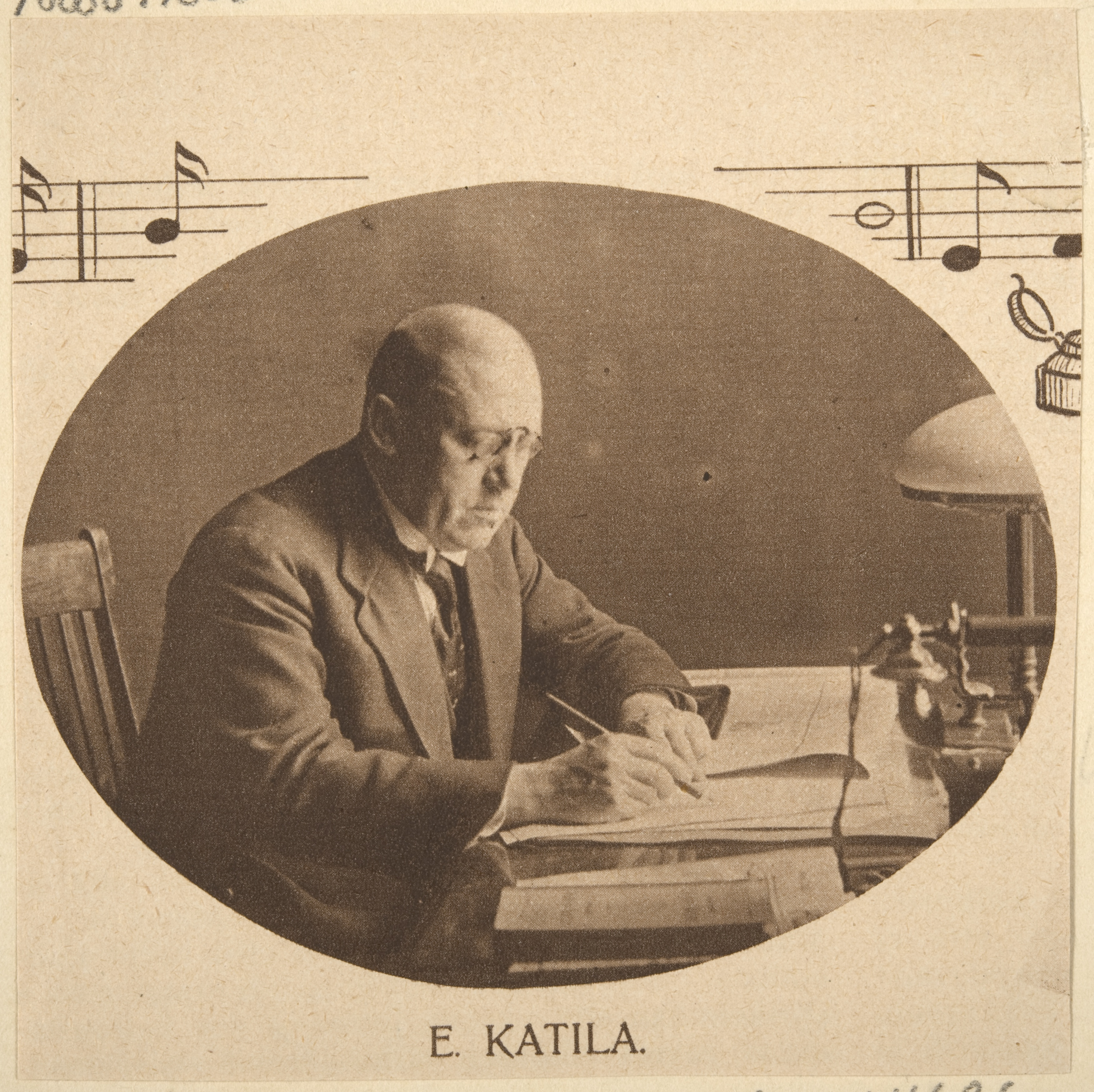 Photograph of the Finnish composer and critic Evert Katila (1872–1945).